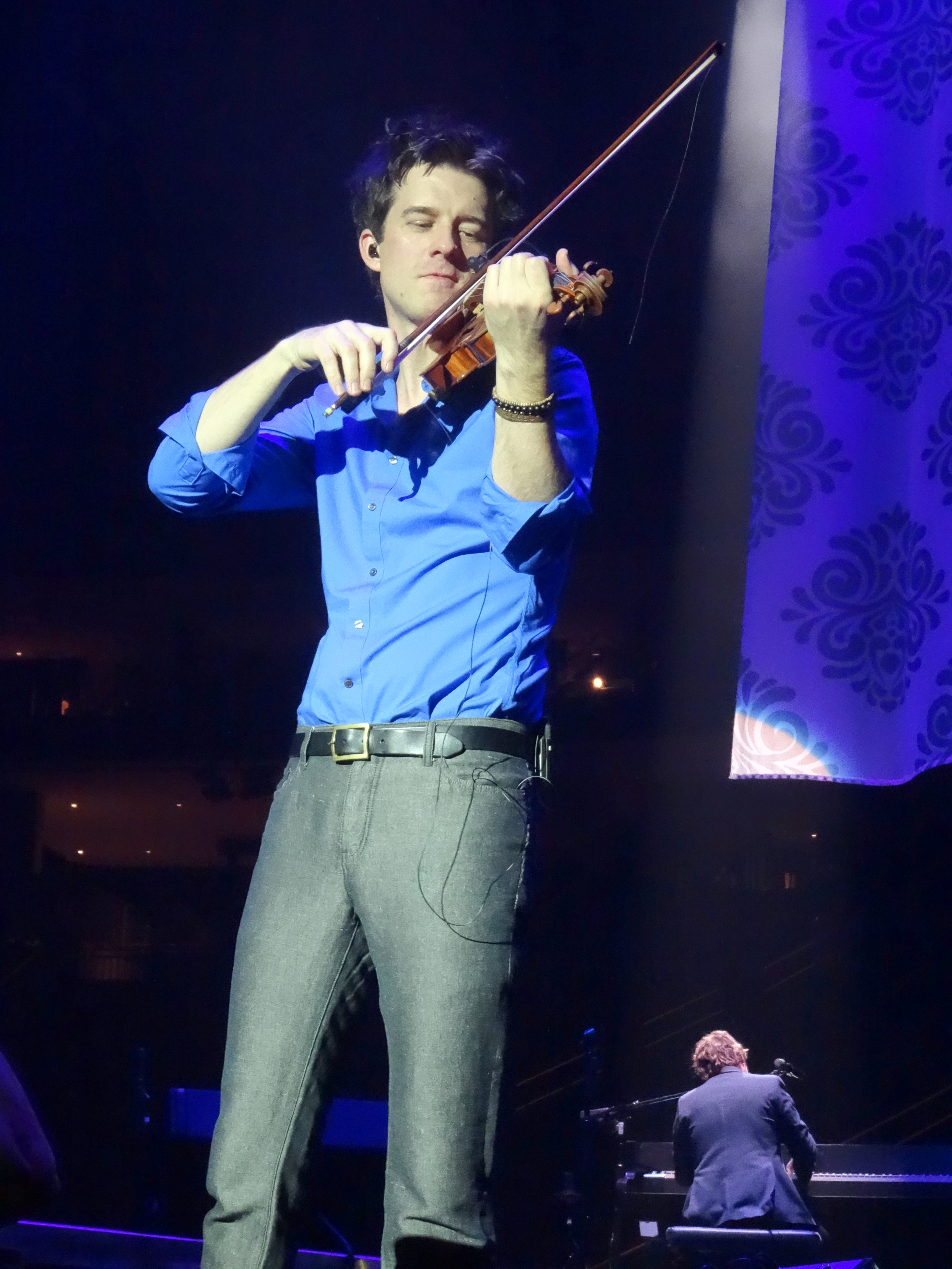 Christian Hebel performing live at Consol Energy Center in Pittsburgh, PA on Josh Groban's In the Round Tour. November 2, 2013